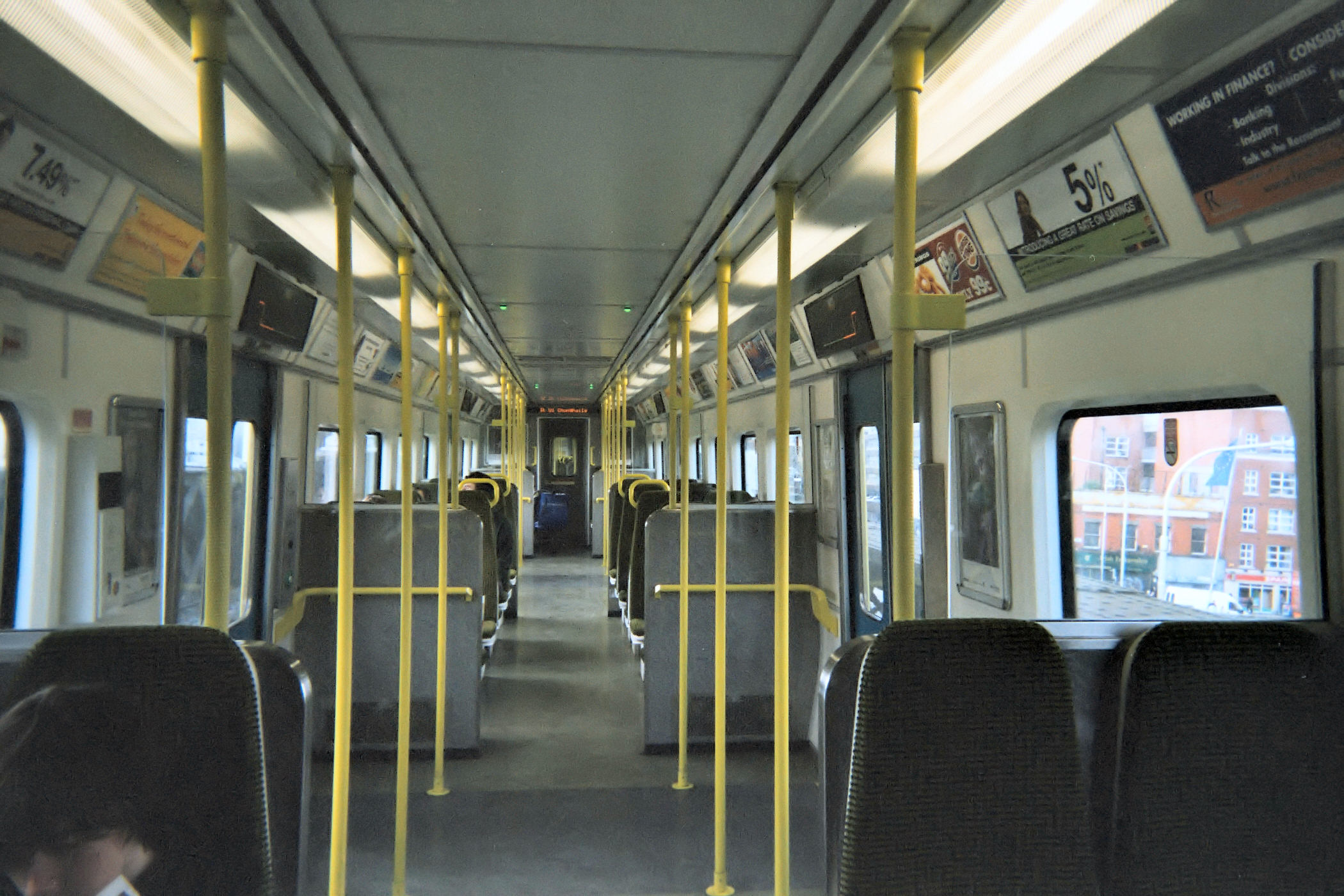 Interior of a DART train in Dublin, Ireland.